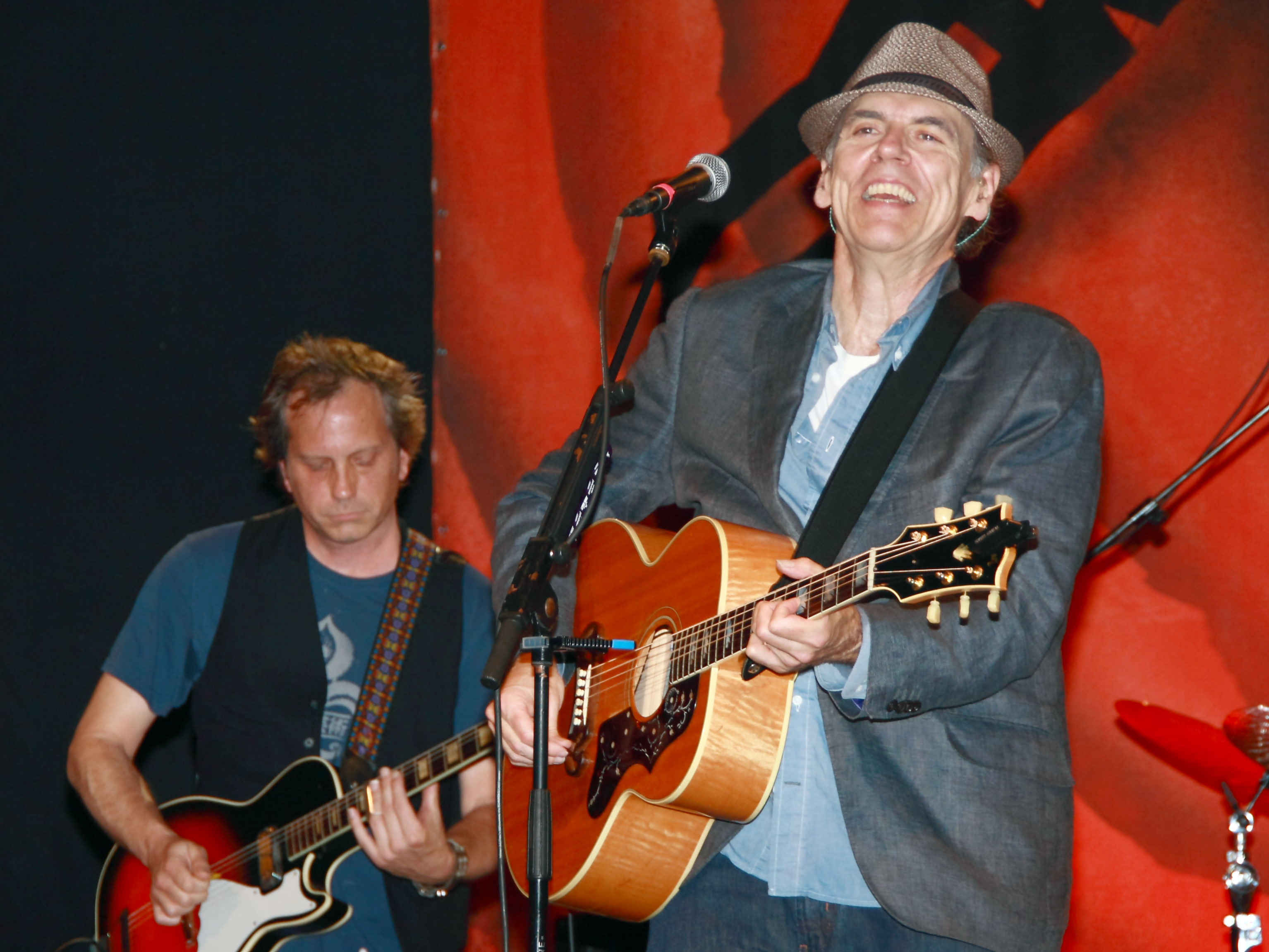 John Hiatt with Doug Lancio at TFF Rudolstadt 2012.